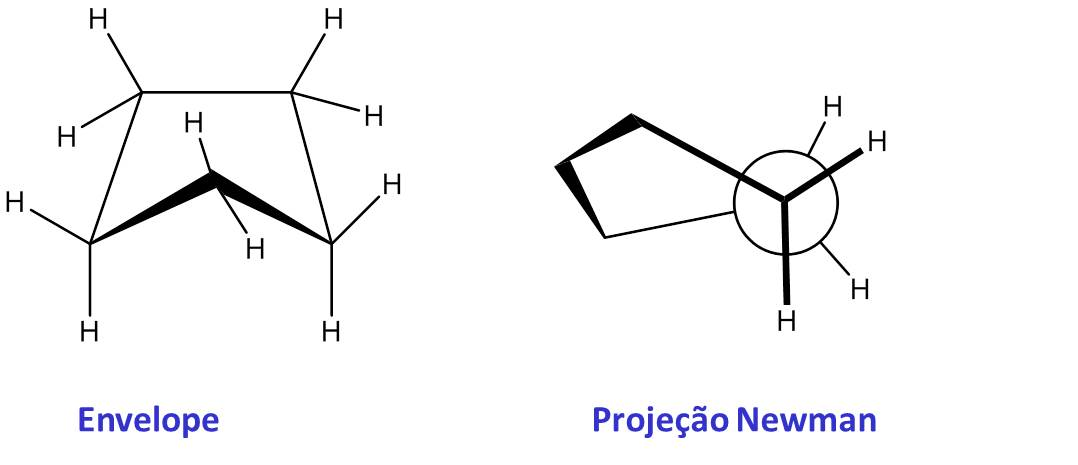 Ciclopentano